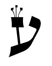 The Hebrew letter ע in Setham writing.